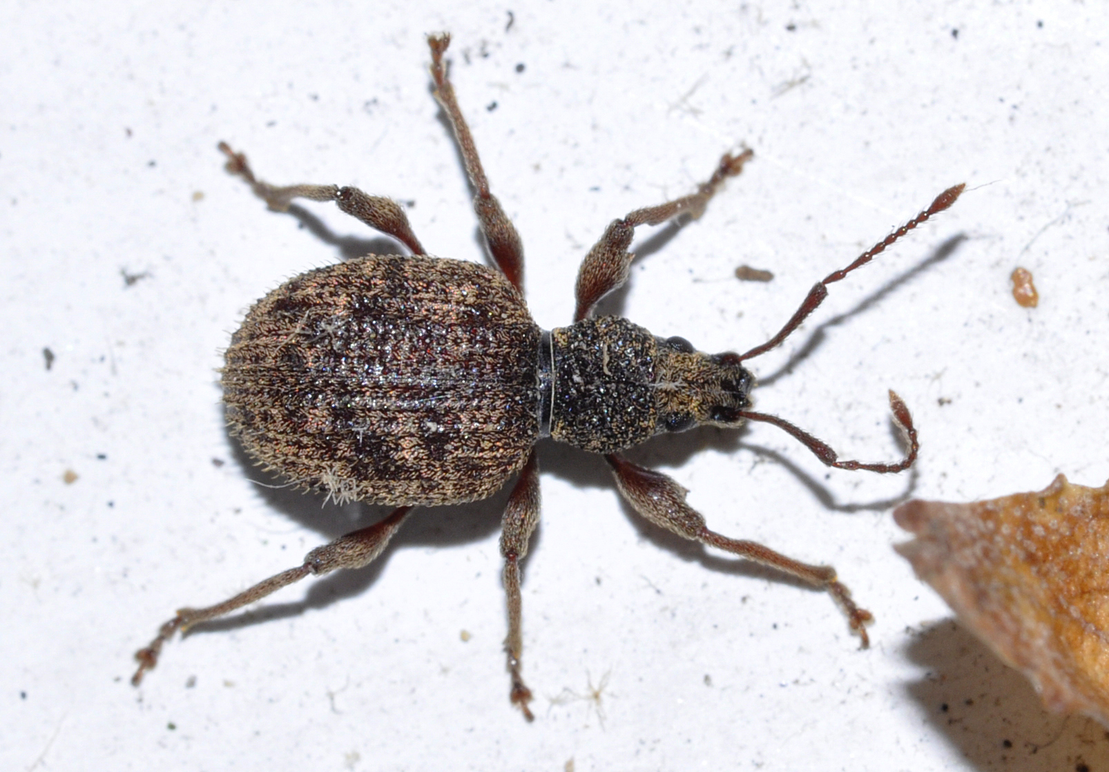 Otiorhynchus crataegi Germar, 1824. Germany: Niedersachsen, Göttingen.